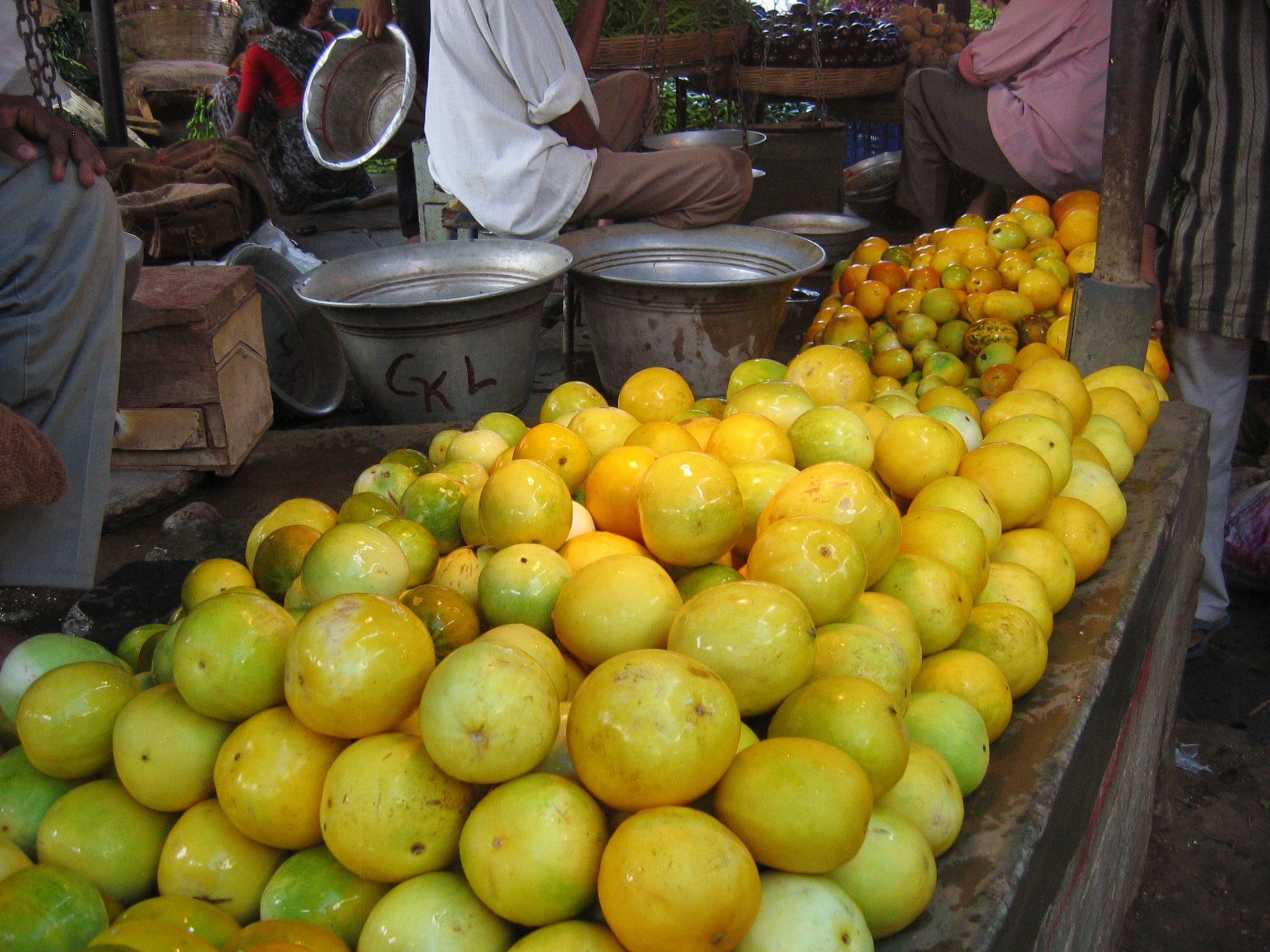 A local favorite vegetable Dosakai being sold at a market in Guntur City, India.